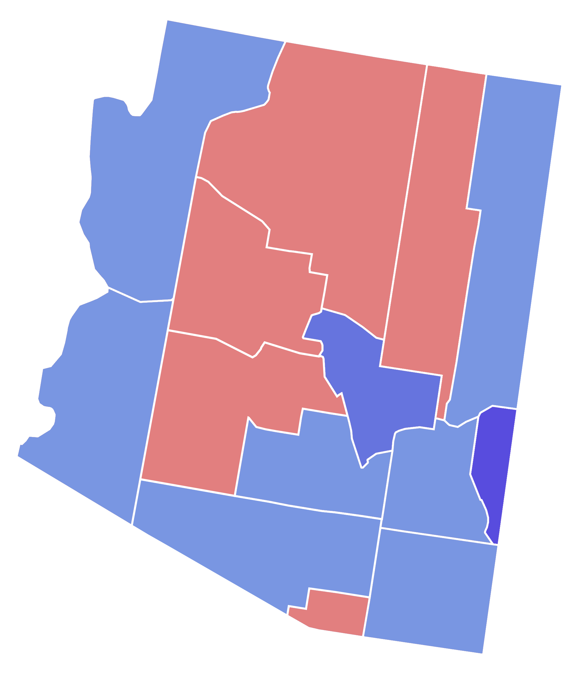 1964 Arizona Senate election by county results. Credits to NordNordWest, Alexrk2, Eric Gaba (Sting - Sting).